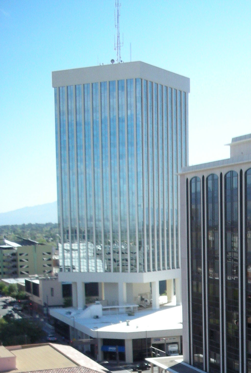 Bank of America Plaza building. A view of downtown Tucson along West Pennington Street.